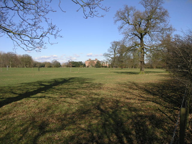 Catton Hall Derbyshire (just)